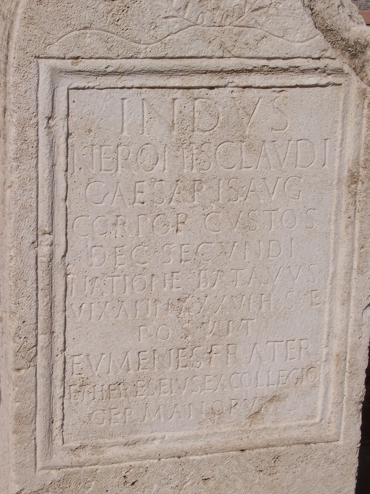 Funerary stela of a Batavian member of the Corporis Custodes (imperial bodyguard) of Nero, from Museo Nazionale Romano - Terme di Diocleziano. The inscription (AE 1952, 0148) says: Indus, bodyguard of Nero Claudius Caesar Augustus, twelfth group, Batavian nation, lived 36 years. His brother and heir Eumenes, from the collegium of the Germans, dedicated. Photo taken by Salvatore Falco, June 2005, Rome